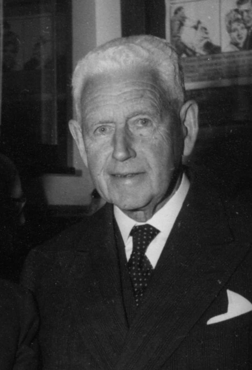 Sir Matthew Oram, Speaker of the House of Representatives during the Foxton Borough 75th Jubilee celebrations, June 1963